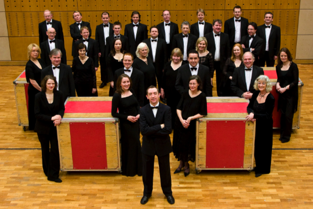 Picture of the RTÉ Concert Orchestra